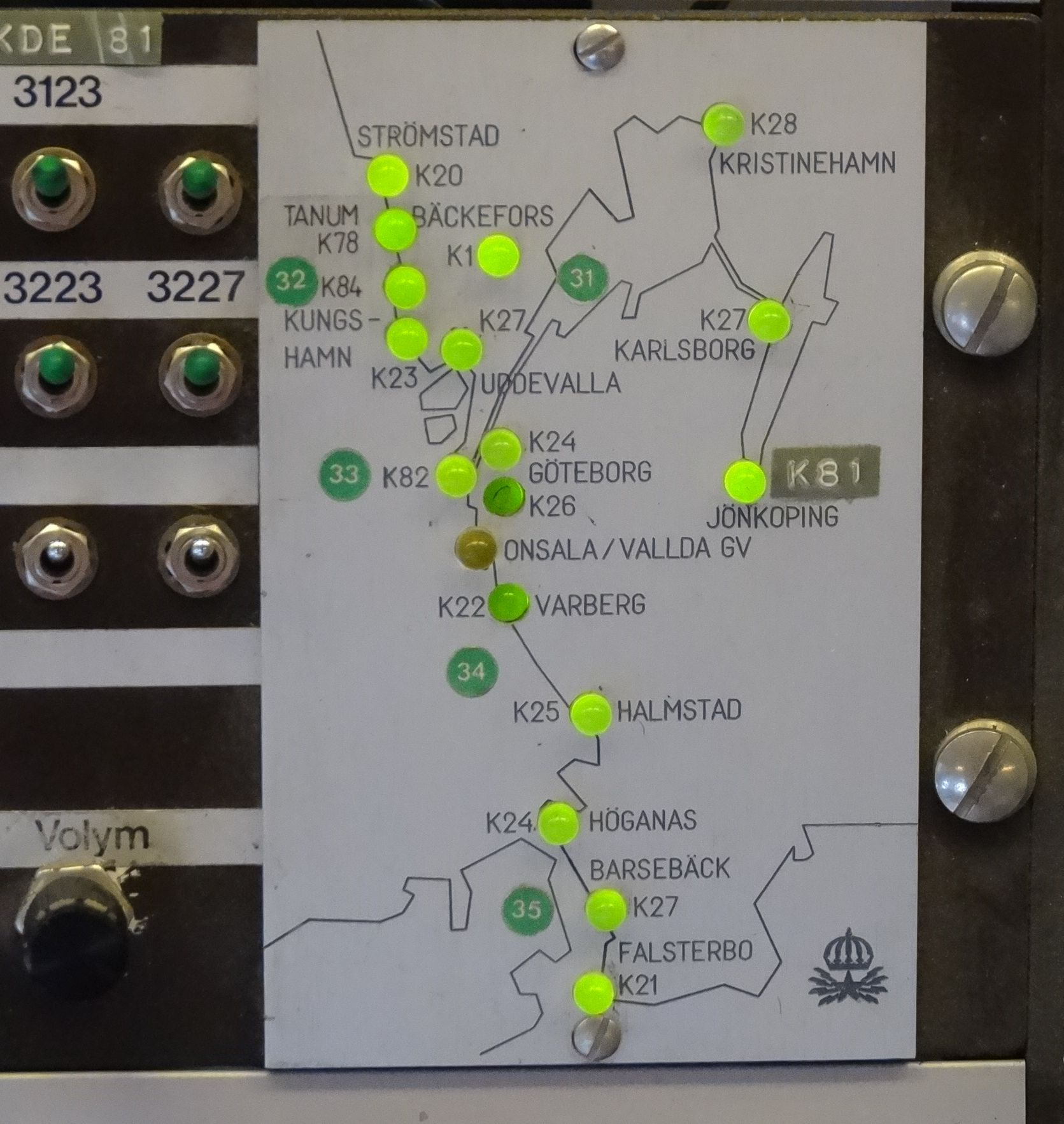 Indicating panel showing the VHF-channels controlled by now closed coastradiostation Göteborg radio, Sweden.